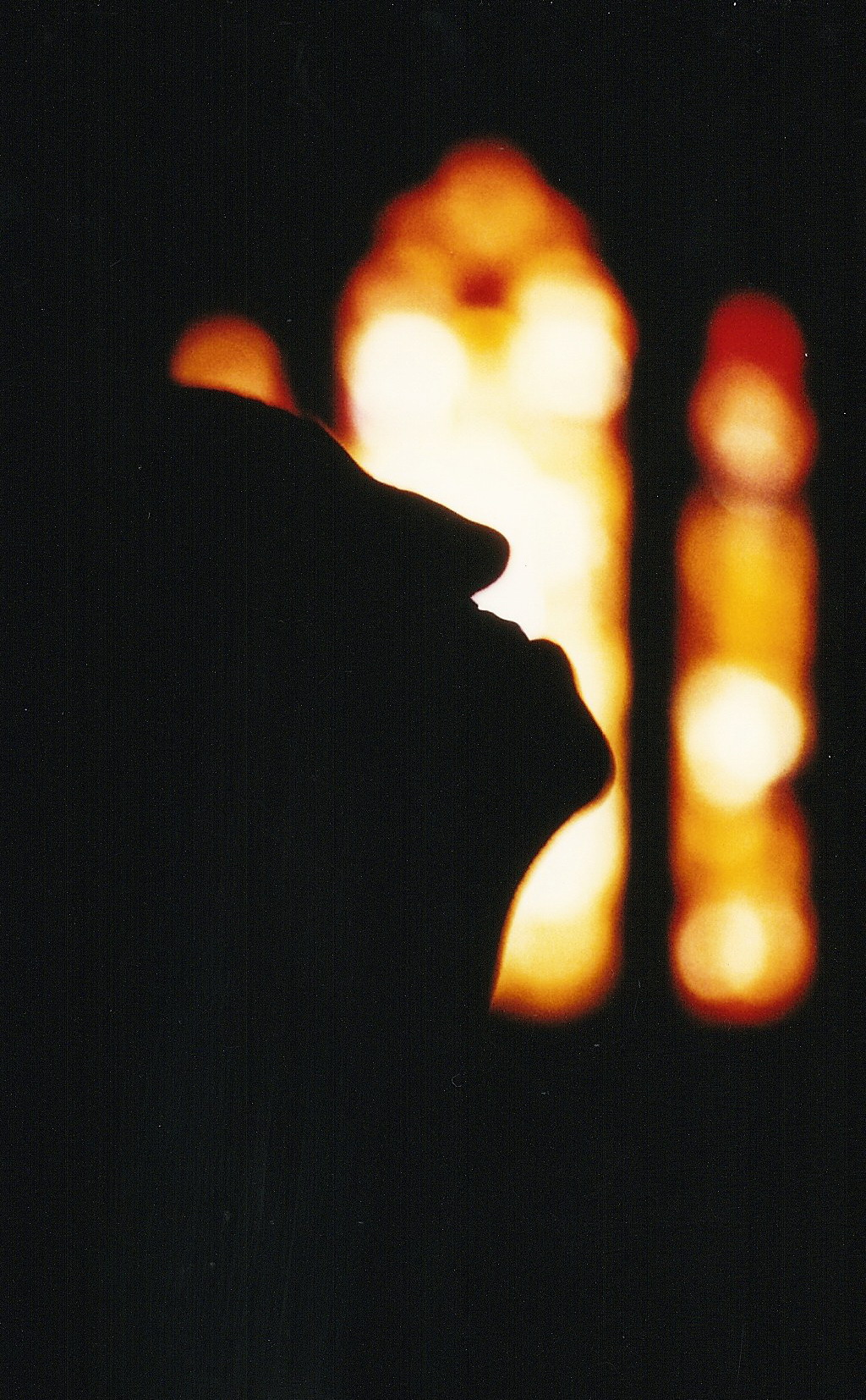 Silhouette of Josef Oberberger